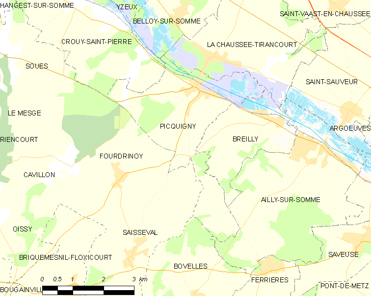 Map of French municipality Picquigny